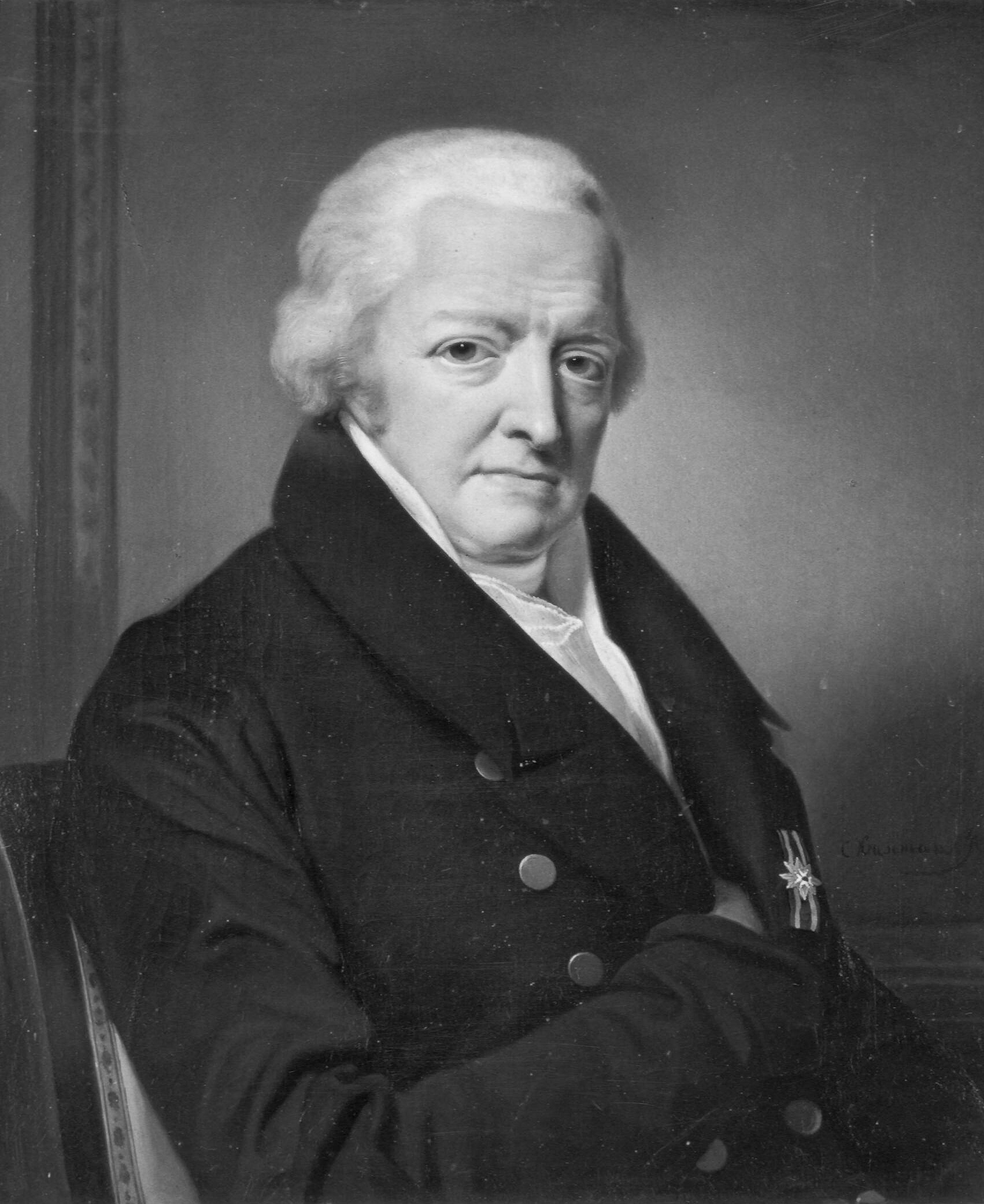 Baron Hans Willem van Aylva, lord of Waardenburg and Neerijnen (The Hague, 8 September 1751 - there, 29 December 1827) was a Frisian nobleman. He was a member of the Legislative Body, a member of the States General and a member of the Senate. He was also a member of the Constitution Committee in 1813-1814.